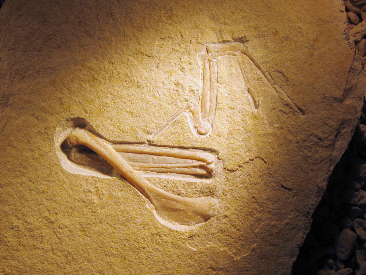 Archaeopteryx lithographica, fragmentary fossil. As these fossil bones represent one wing of Archaeopteryx, this specimen is known as "chicken wing". Imprints of the feathers are faintly visible below the fingers, which have claws. This image was taken at the Munich Mineral Show 2009. (It shows the original fossil - not a cast.)